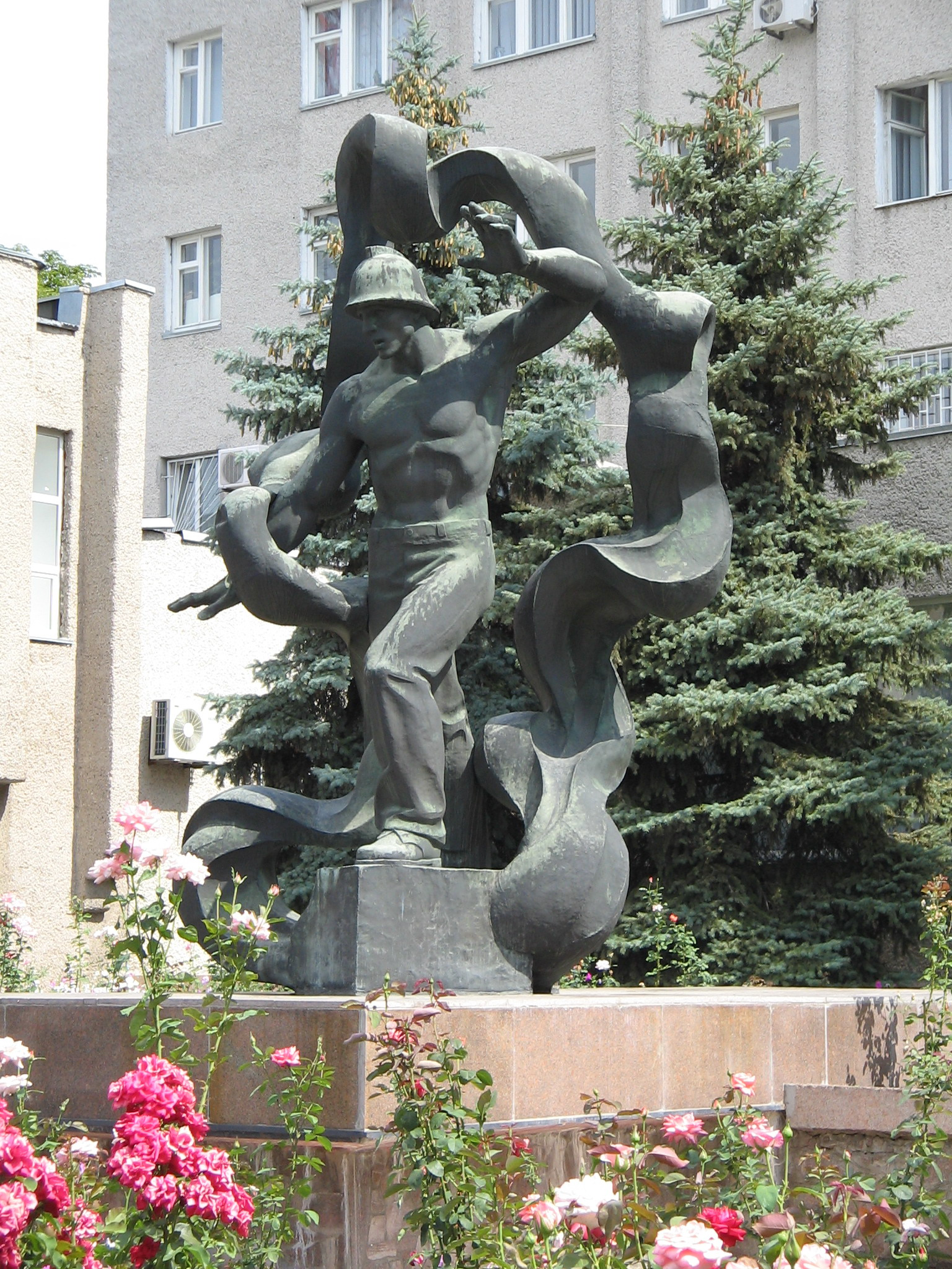 Памятник огнеборцам (Николаев)